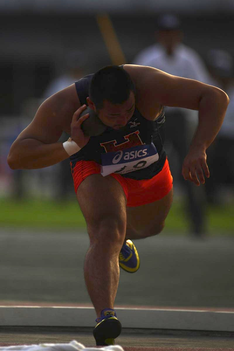 SEPTEMBER 23, 2009 - Track & Field : Men's Shot Put during the Super Track and Field Meet at Todoroki Stadium on September 23, 2009 in Kanagawa, Japan. (Photo by Tsutomu Takasu)